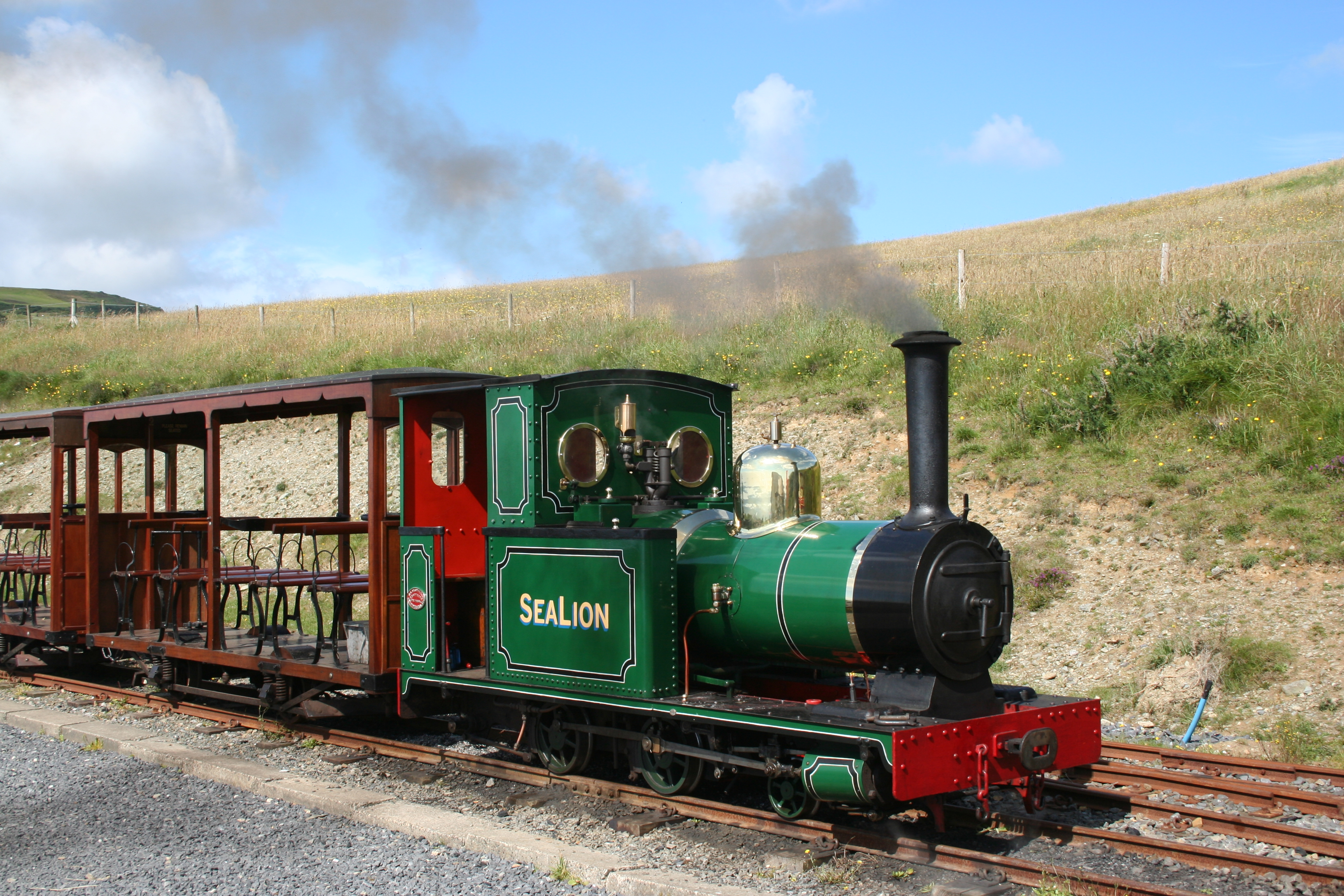 "Sea Lion" at the outer terminus of the Groudle Glen Railway